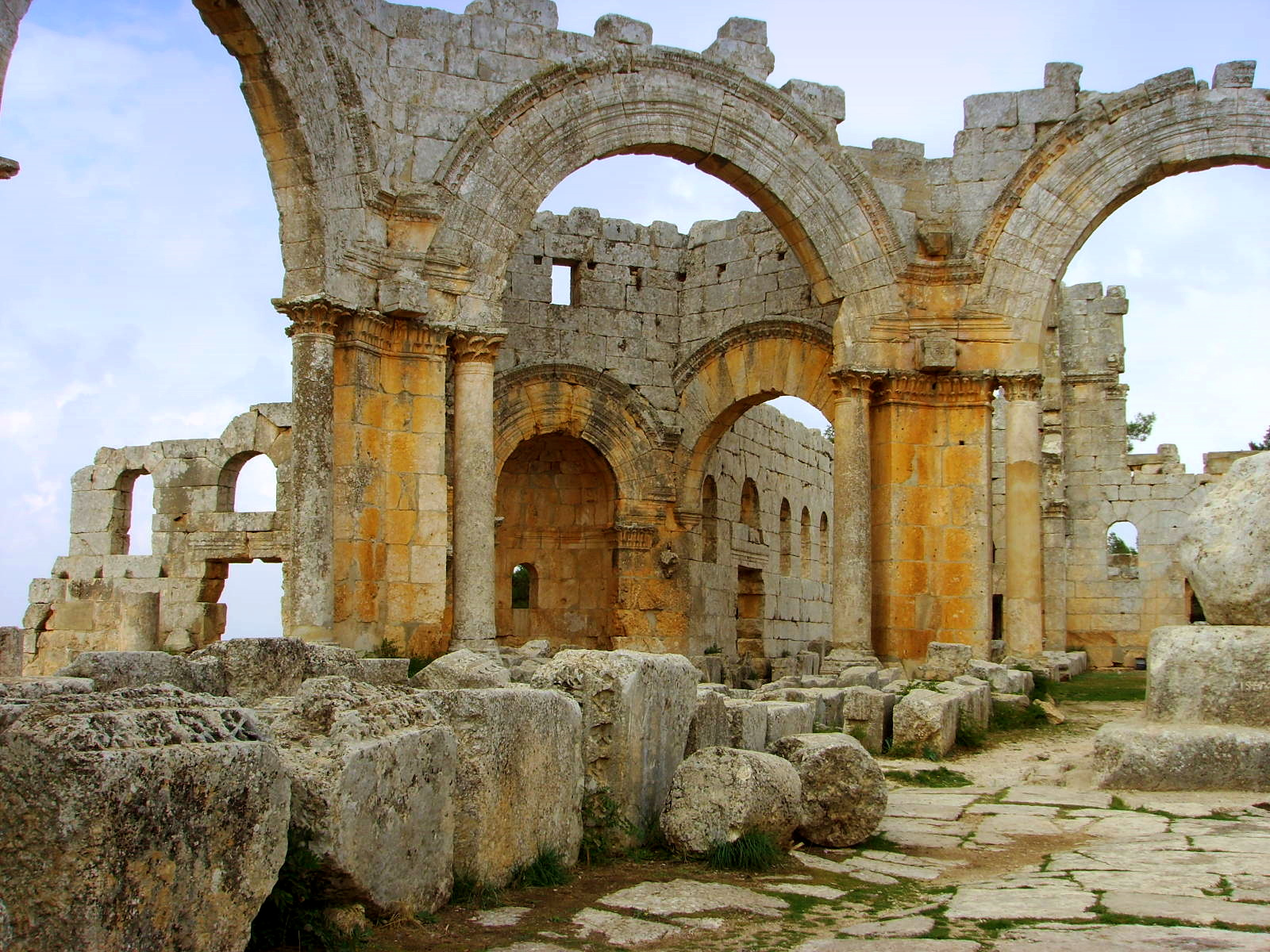 Simeon Stylites